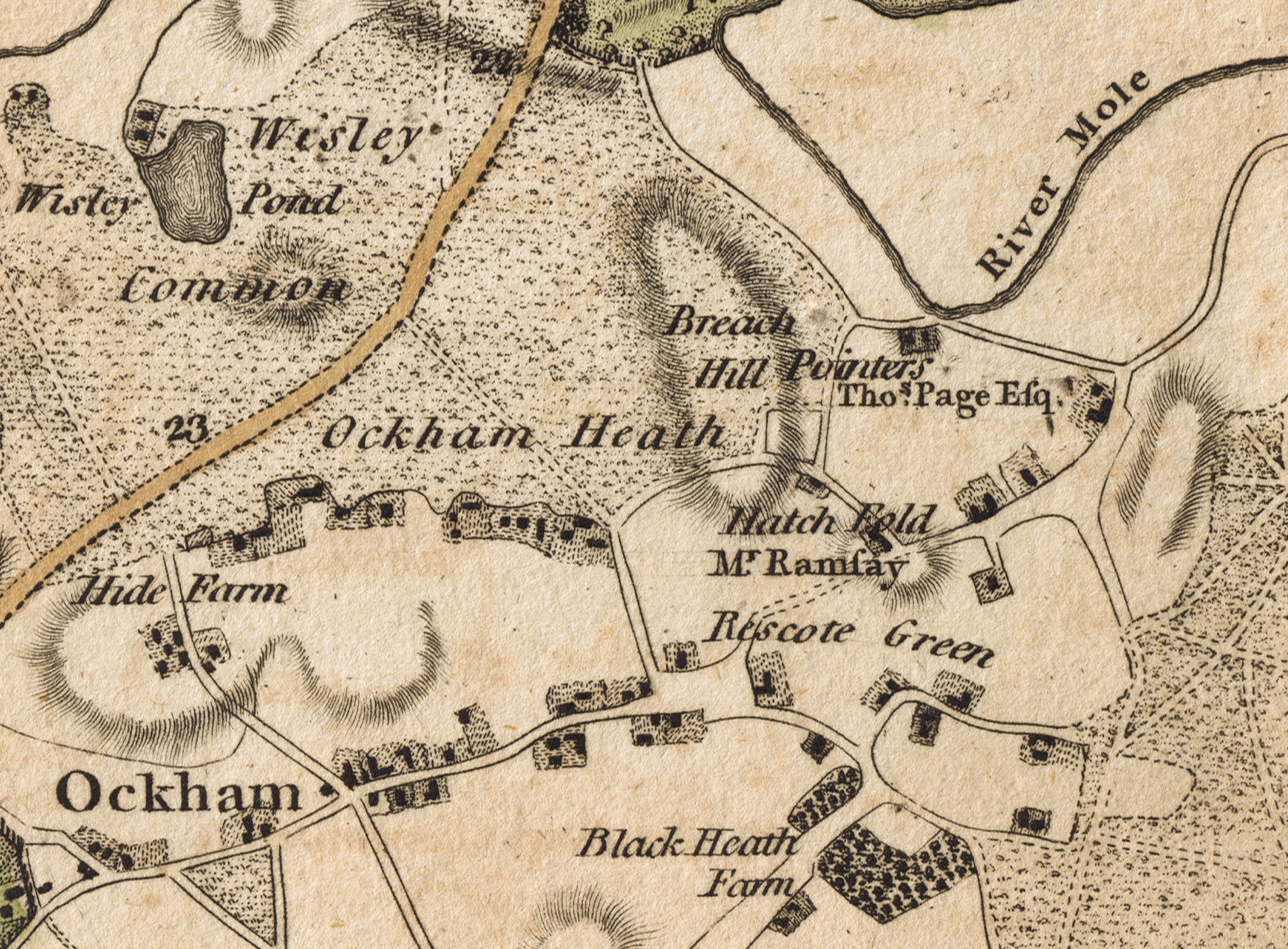 Excerpt from John Cary's 1786 map showing Ockham, Wisley and Hatchford, Surrey, England